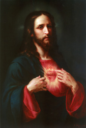 Sacred Heart of Jesus